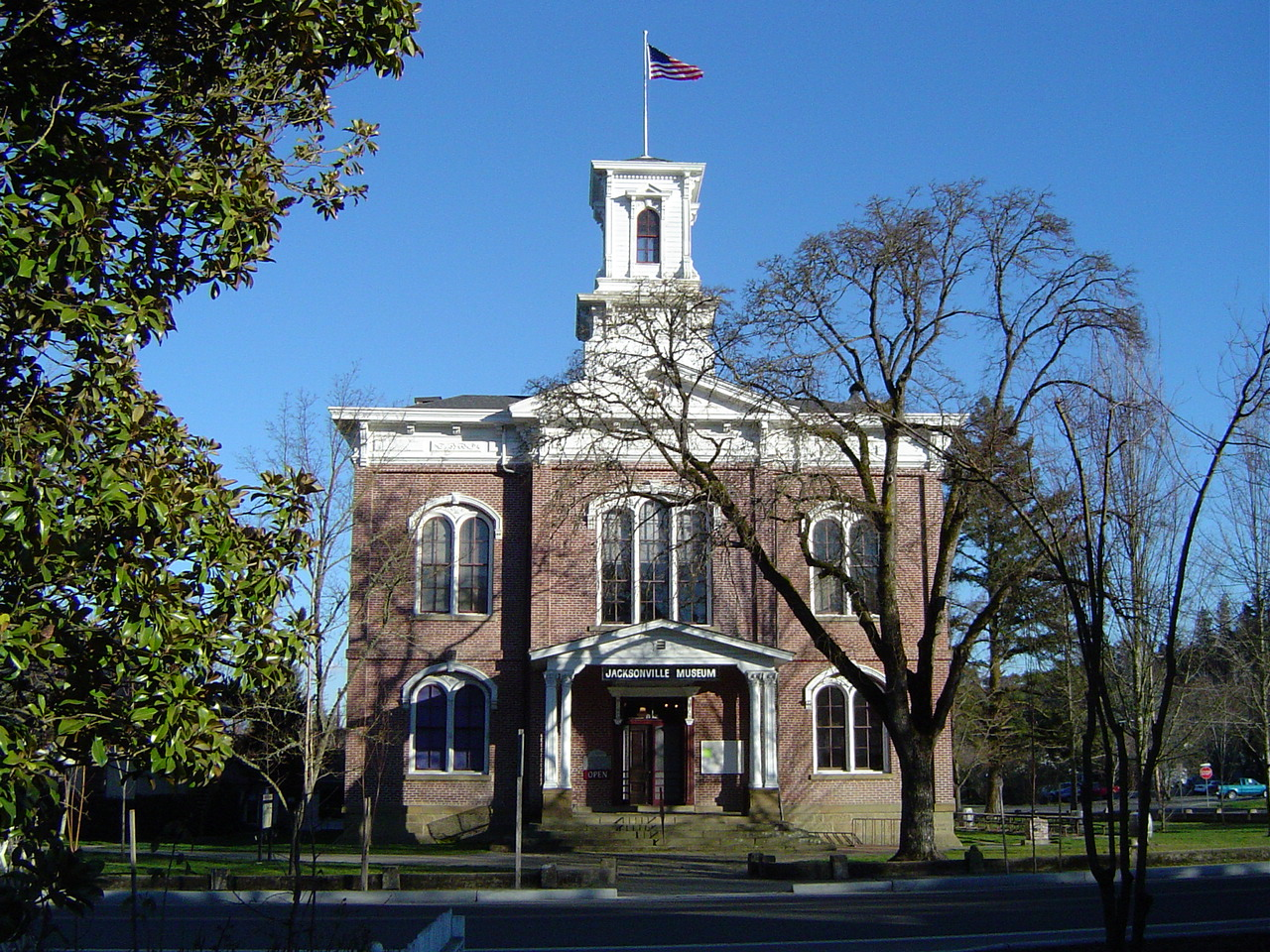 The former Jackson County Courthouse in Jacksonville, Oregon, United States. It lies within the Jacksonville Historic District, a US National Historic Landmark. The building formerly housed the Jacksonville Museum, but since 2010 that collection has been moved to storage and is unavailable to the public.